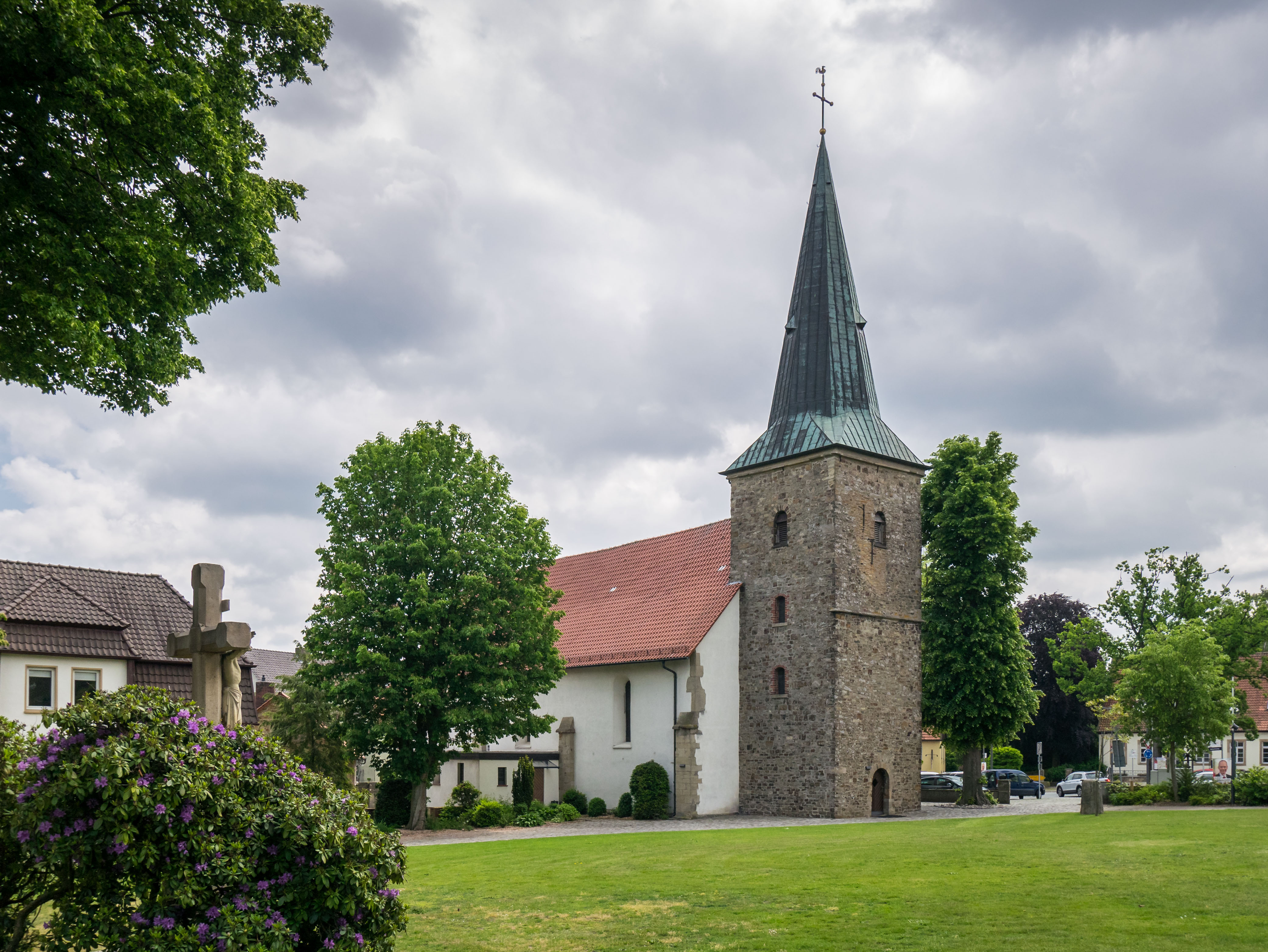 St. Dionysius Church in Belm, Osnabrück-Land, Lower Saxony, Germany